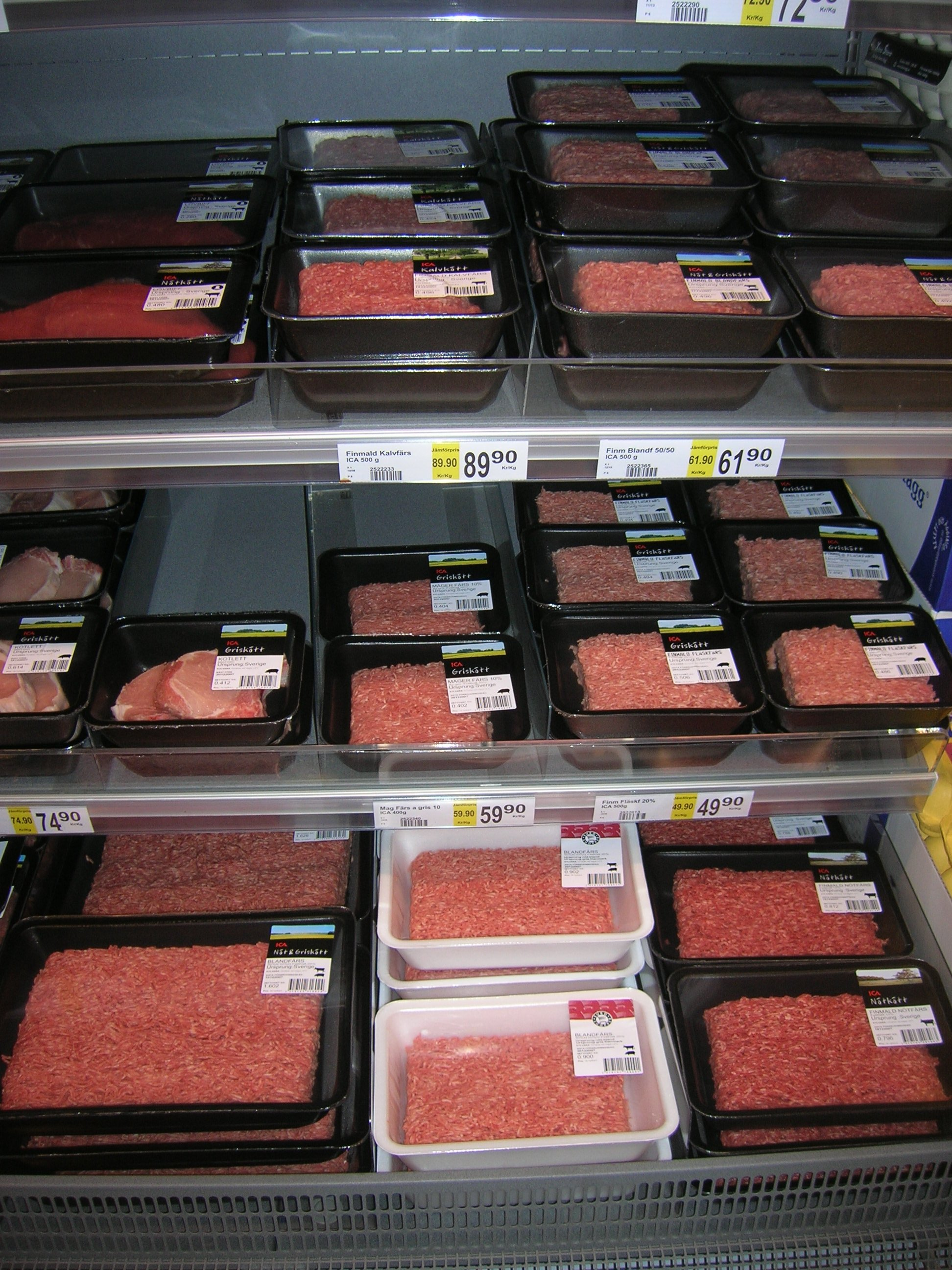 Packages of meat in an ICA supermarket in Sweden.